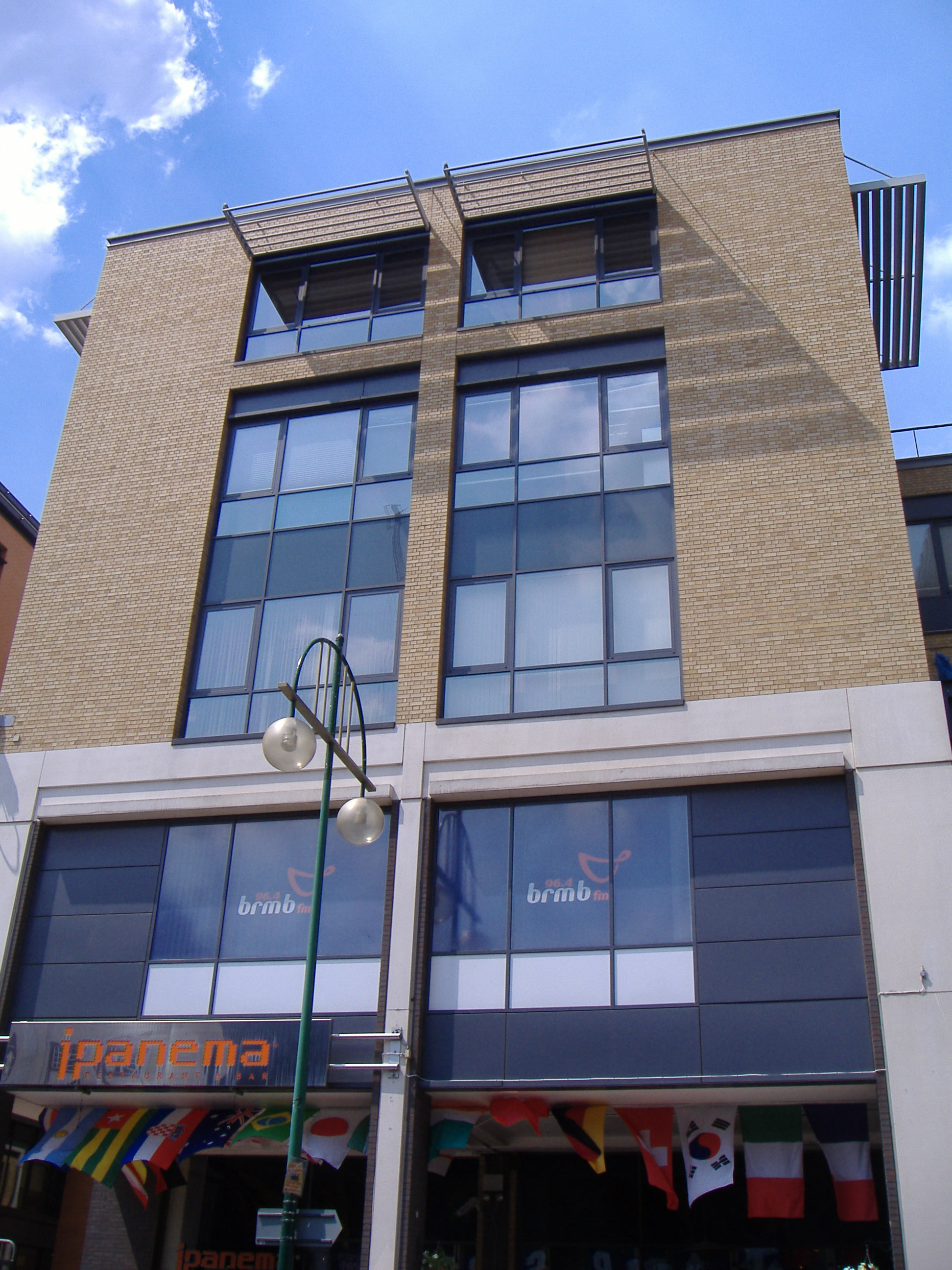 THE BRMB RADIO STATION STUDIOS IN BIRMINGHAM, England, UK.